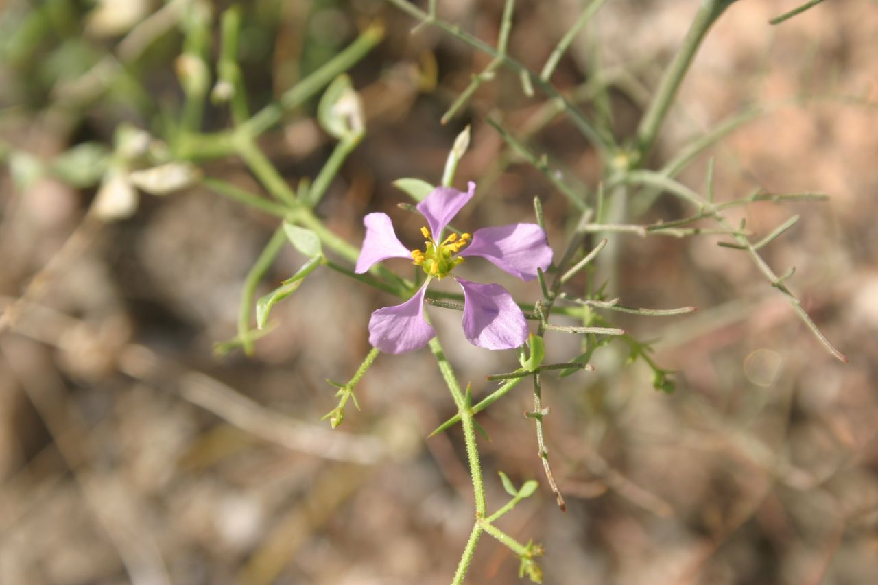 Fagonia pachyacantha, Coachella Valley, Riverside, California, USA.